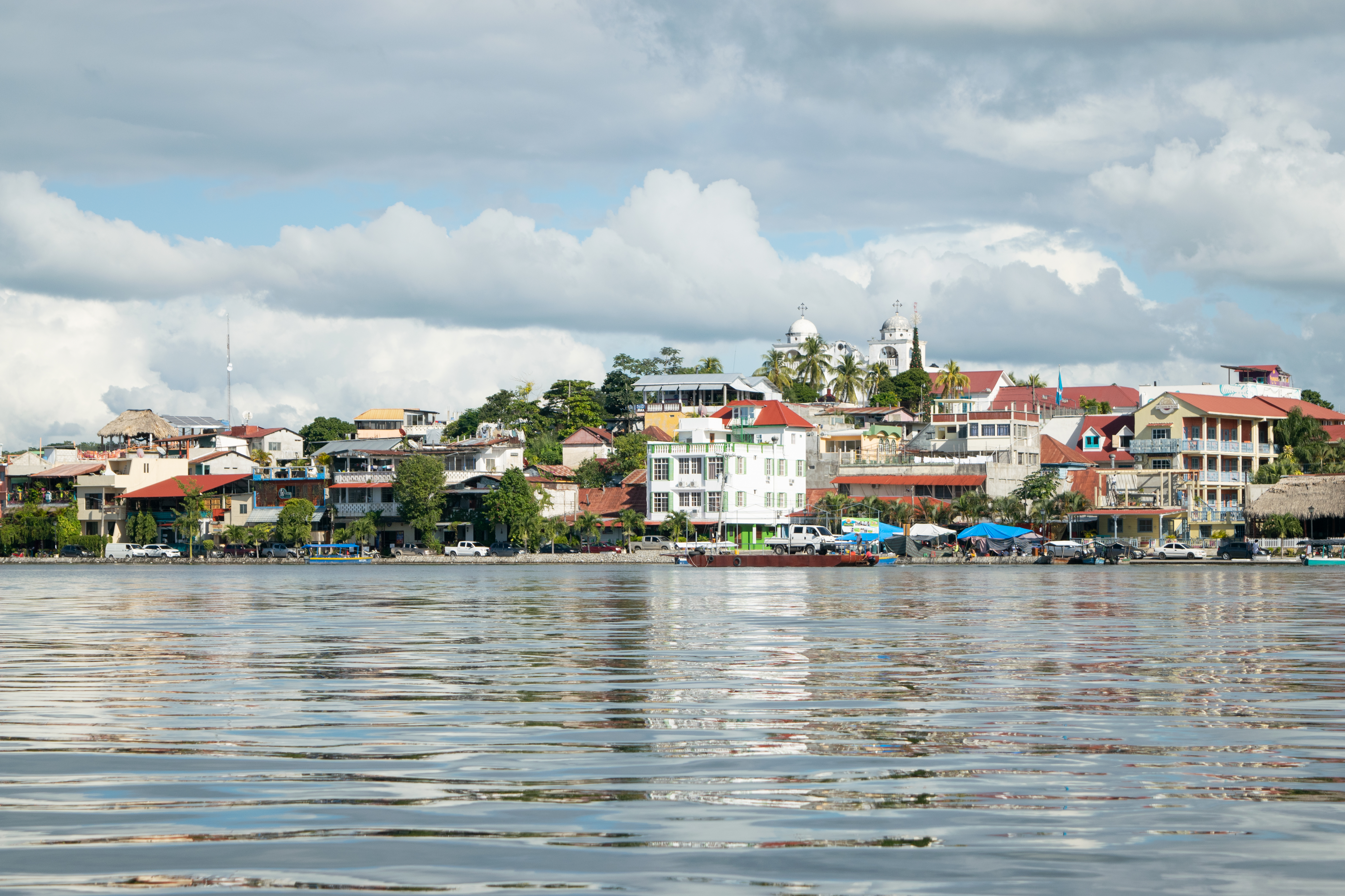 The Island of Flores as seen from the Lake Petén Itzá. This side of the island features many hotels and restaurants. The island's church can be seen on the highest part of it.